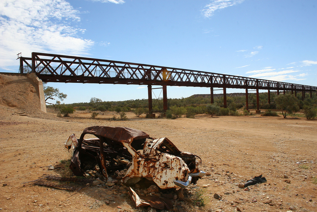 Algebuckina Bridge over the Neales River in South Australia